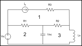 "A simple circuit used in explain Mesh Analysis"